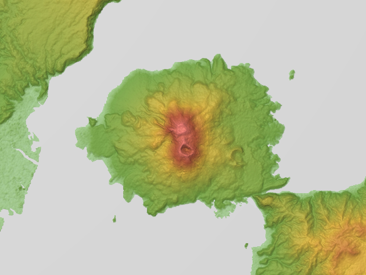 Sakurajima in Kagoshima Prefecture, Kyushu, Japan.